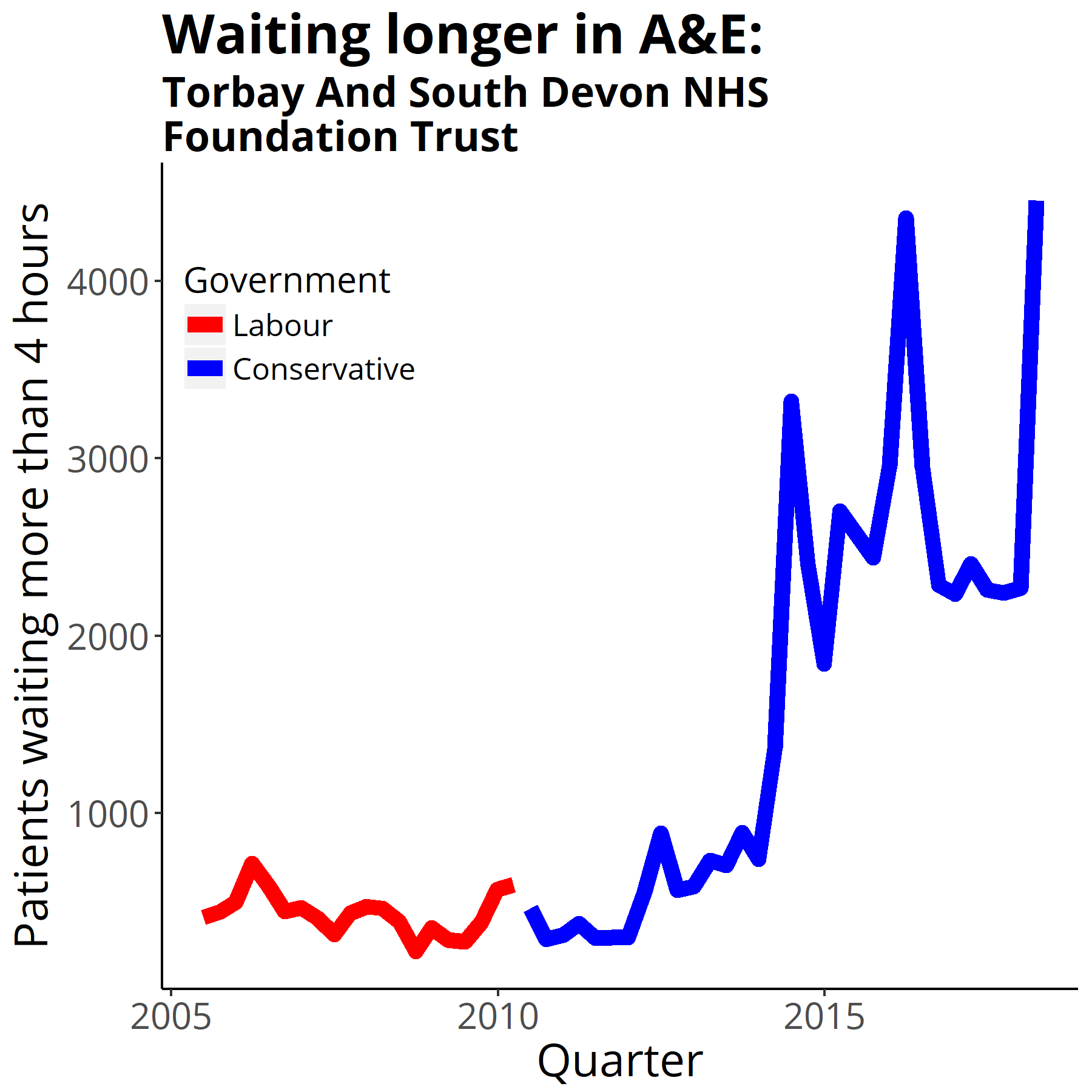 en|1=Four-hour target in the emergency department quarterly figures from NHS England[1]